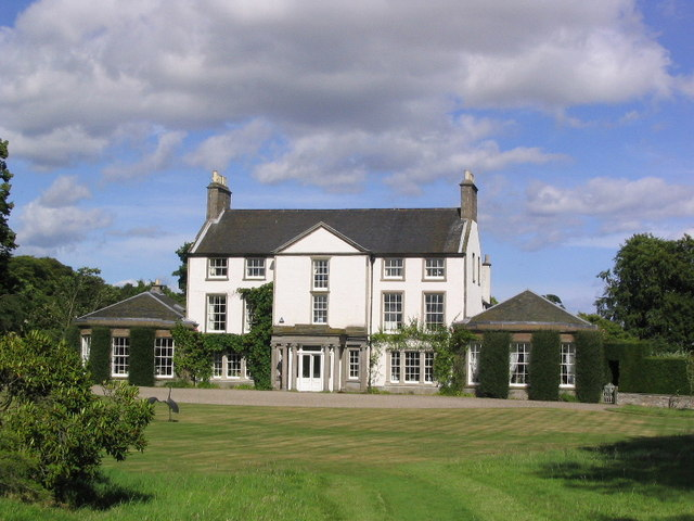 House of Pitmuies An eighteenth century house with courtyard, walled garden, rose garden, alpine meadow, woodland garden and riverside walk.